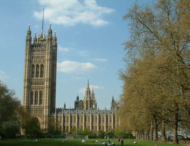 Palace of Westminster - Victoria Tower and south elevation from the south - Westminster - London - England